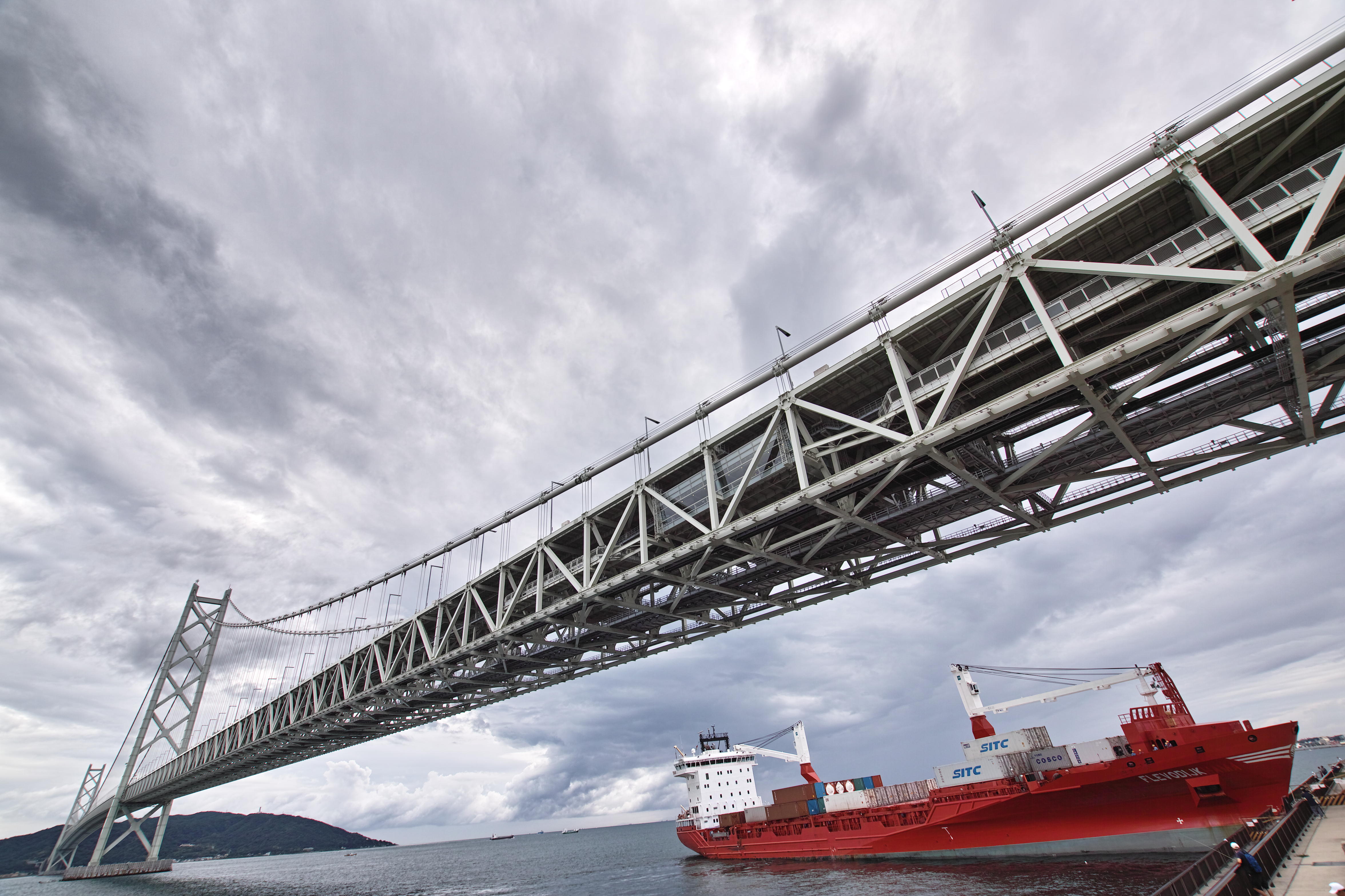 A ship hitting my shooting point...